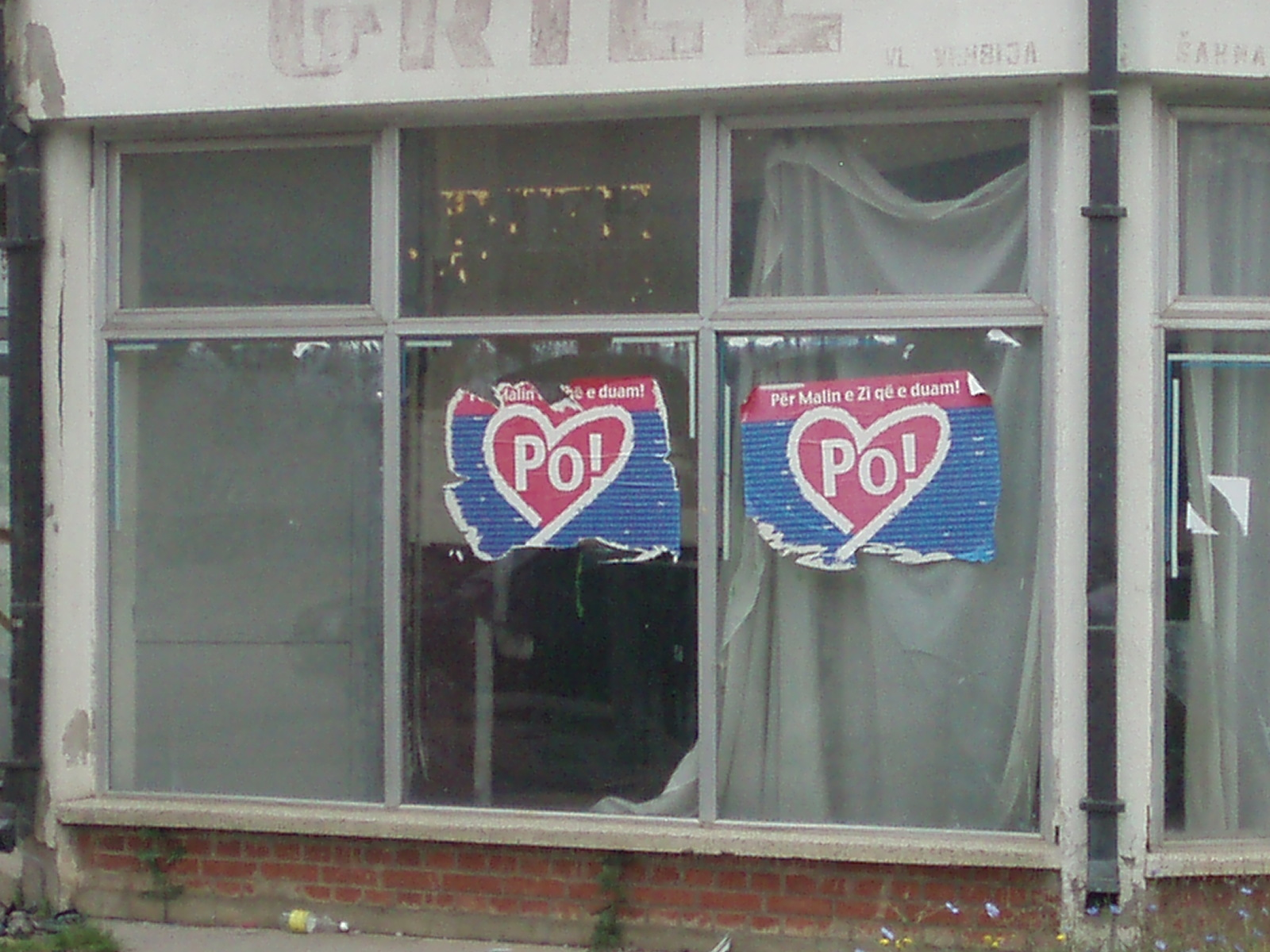 a bilingual Albanian-Serbian poster for the referendum of independance of Montenegro (taken in Plav, Montenegro)